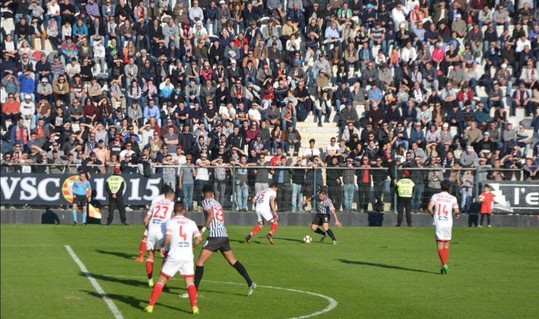 Portuguese second tier game